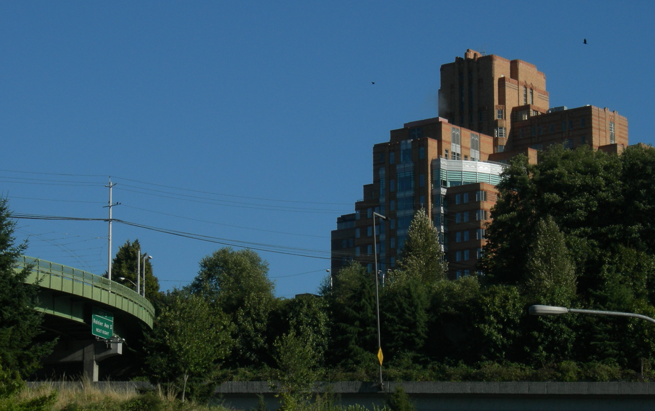 12th Ave S. Bridge (now Jose P. Rizal Bridge) and the former Marine Hospital, Seattle, Washington (now the Pacific Medical Center building, housing the headquarters of Pacific Medical Center and ). Both the bridge and the building are on the National Register of Historic Places. The bridge spans over Dearborn Street and connects First Hill and the International District on its north to Beacon Hill (where the Pacific Medical Center building is located) on its south.